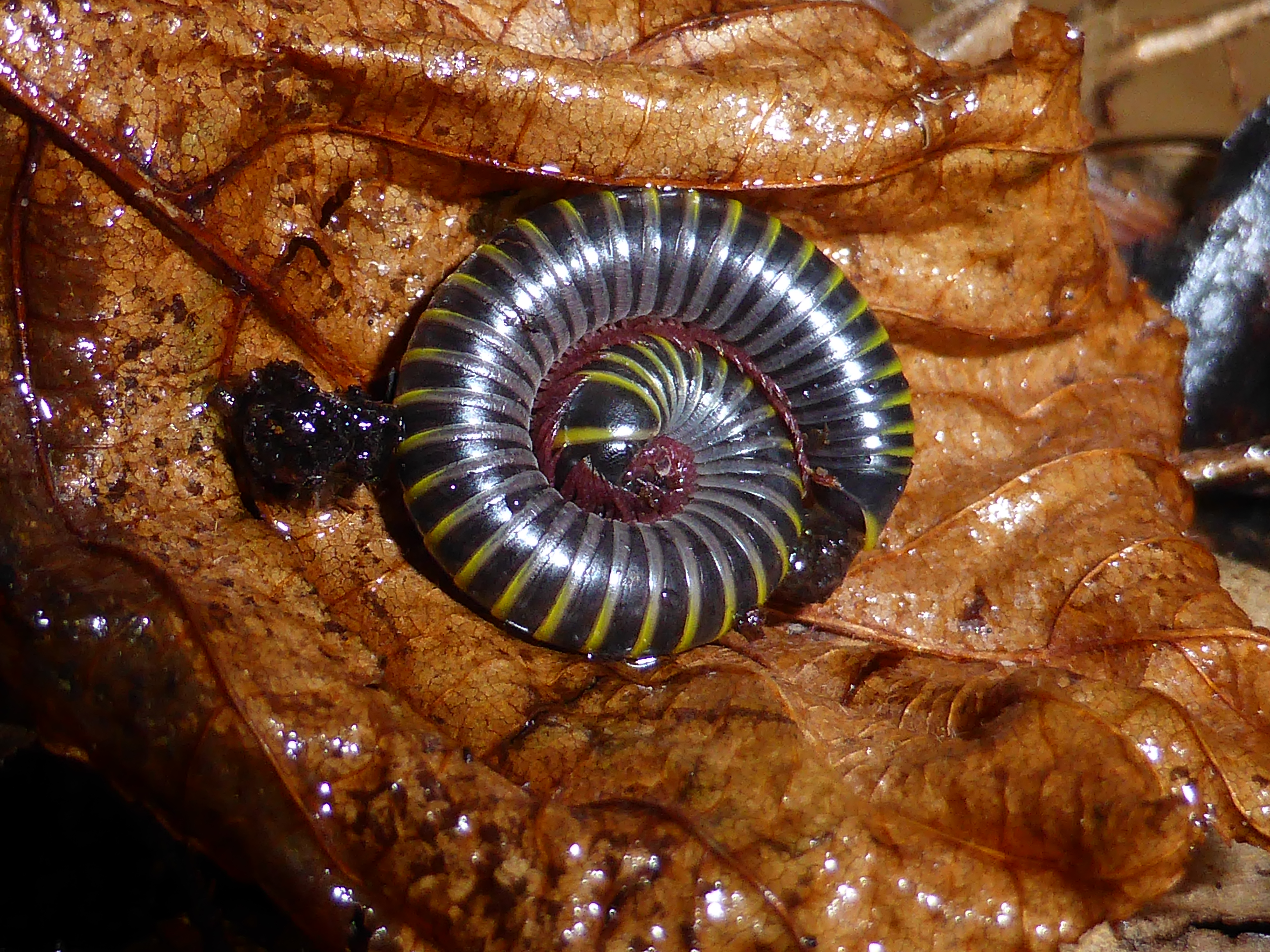 Adult Anadenobolus monilicornis. This animal is the property of Eveha.